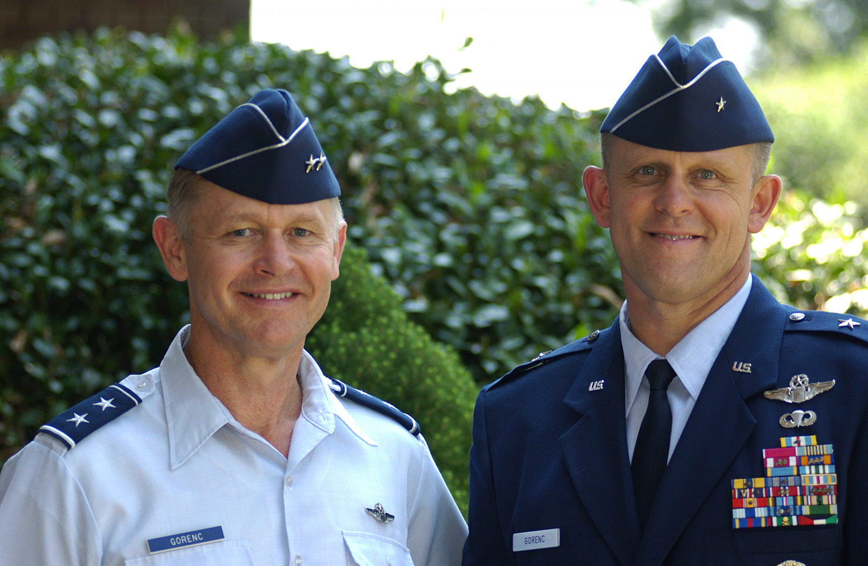 Maj. Gen. Stanley Gorenc (left) and his brother, Brig. Gen. Frank Gorenc, are two of 271 general officers in the active-duty Air Force of more than 350,000. The two-star general is director of operational capabilities requirements in Washington, and his younger brother will be the 332nd Air Expeditionary Wing commander at Balad Air Base, Iraq.